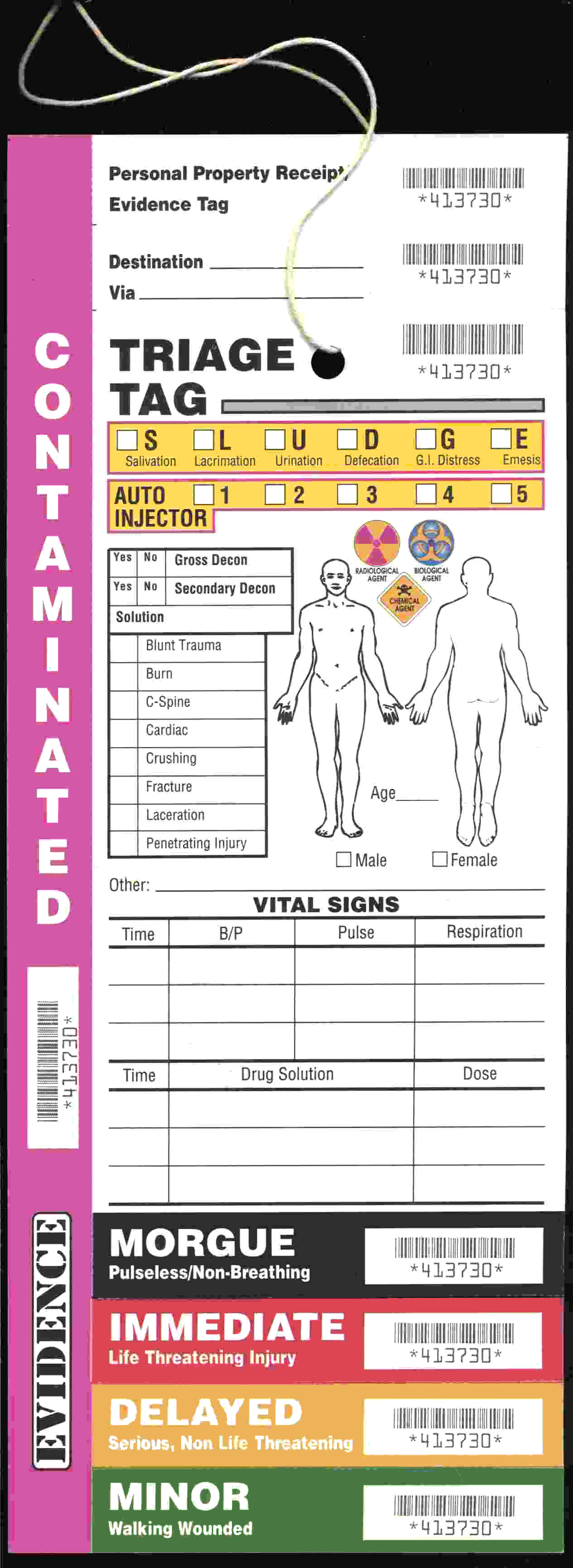 DECONference triage tag I captured this closeup picture of one of the triage tags worn by one of the decontaminees, at the 2002 DECONference.